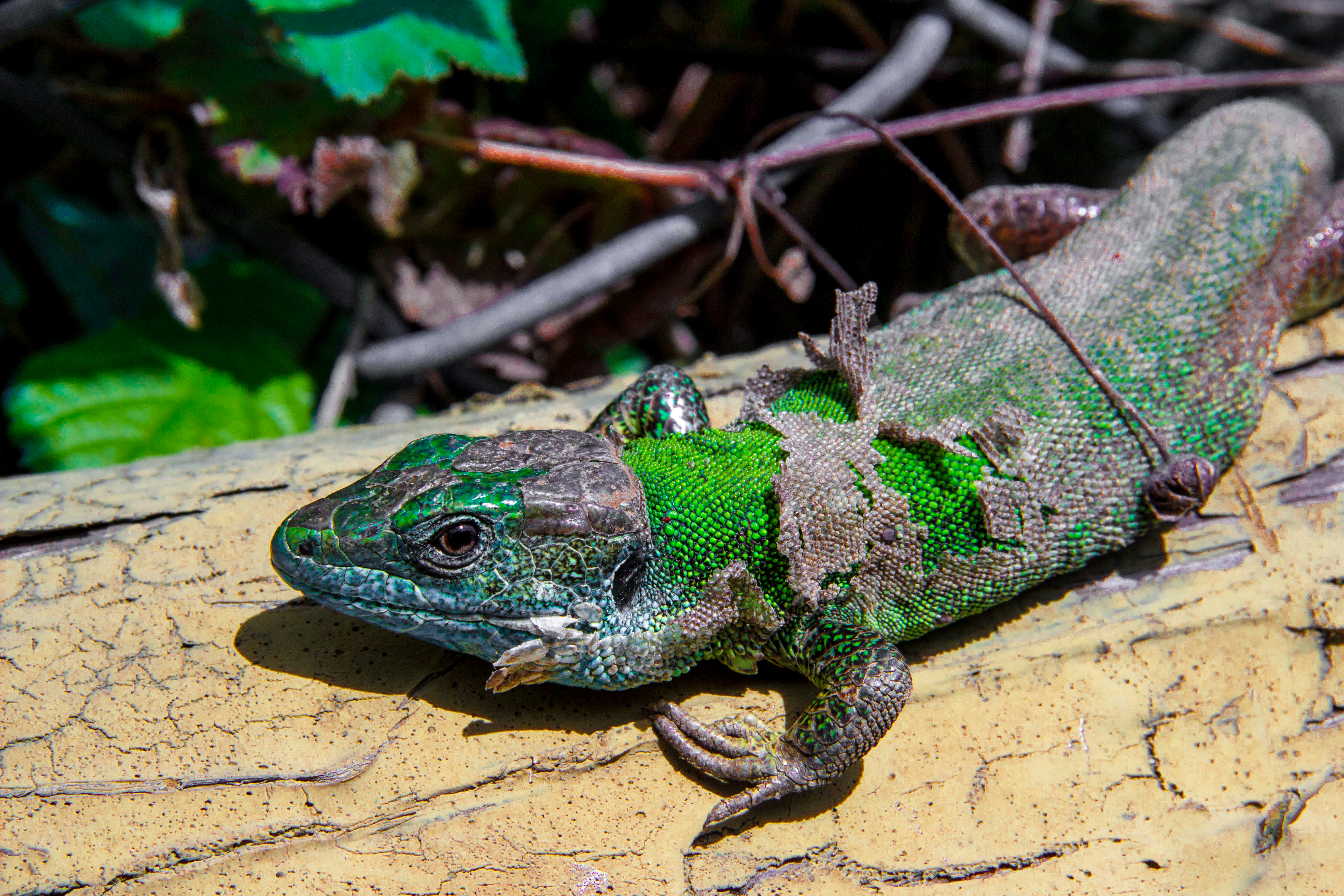 European green lizard (Lacerta viridis) moulting in Strandzha Nature Park, Bulgaria